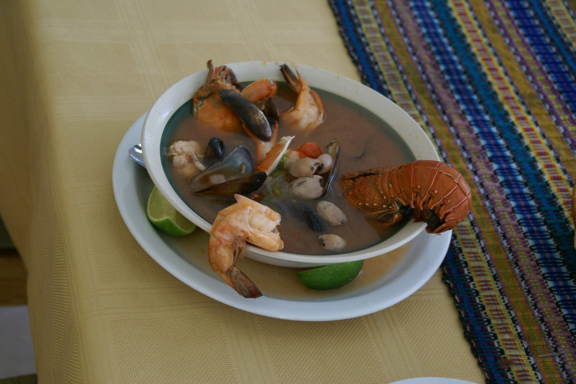 Seafood soup (mariscada), picture taken at El Sunzal beach near El Tunco in El Salvador